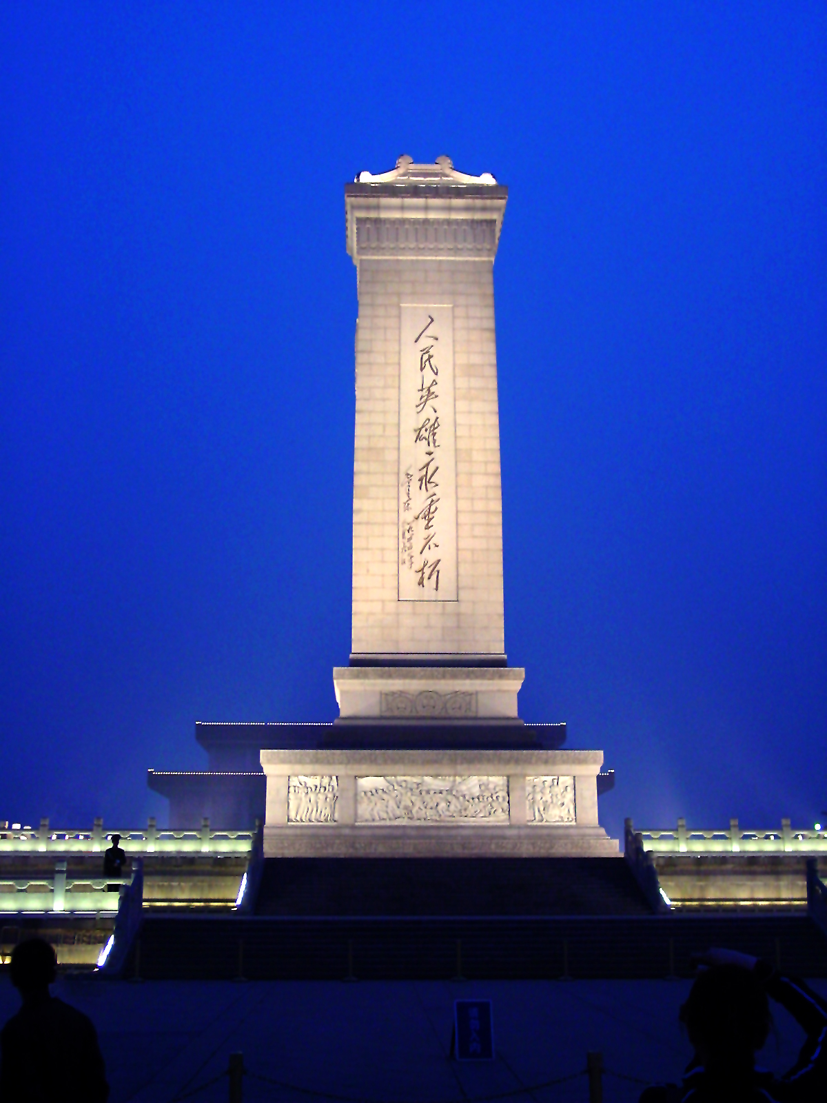 Monument to the People's Heroes in Tainanmen Square - Beijing, China